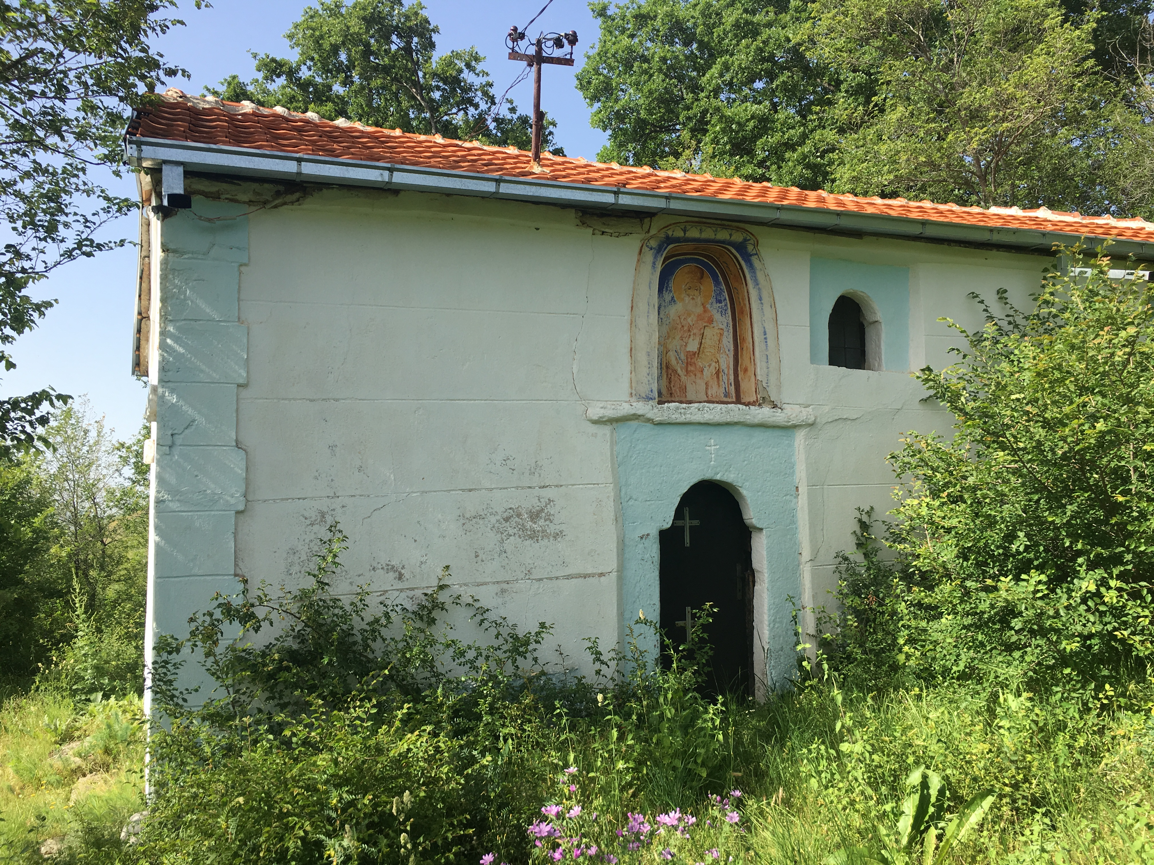 St. Demetrius Church in the village of Puturus